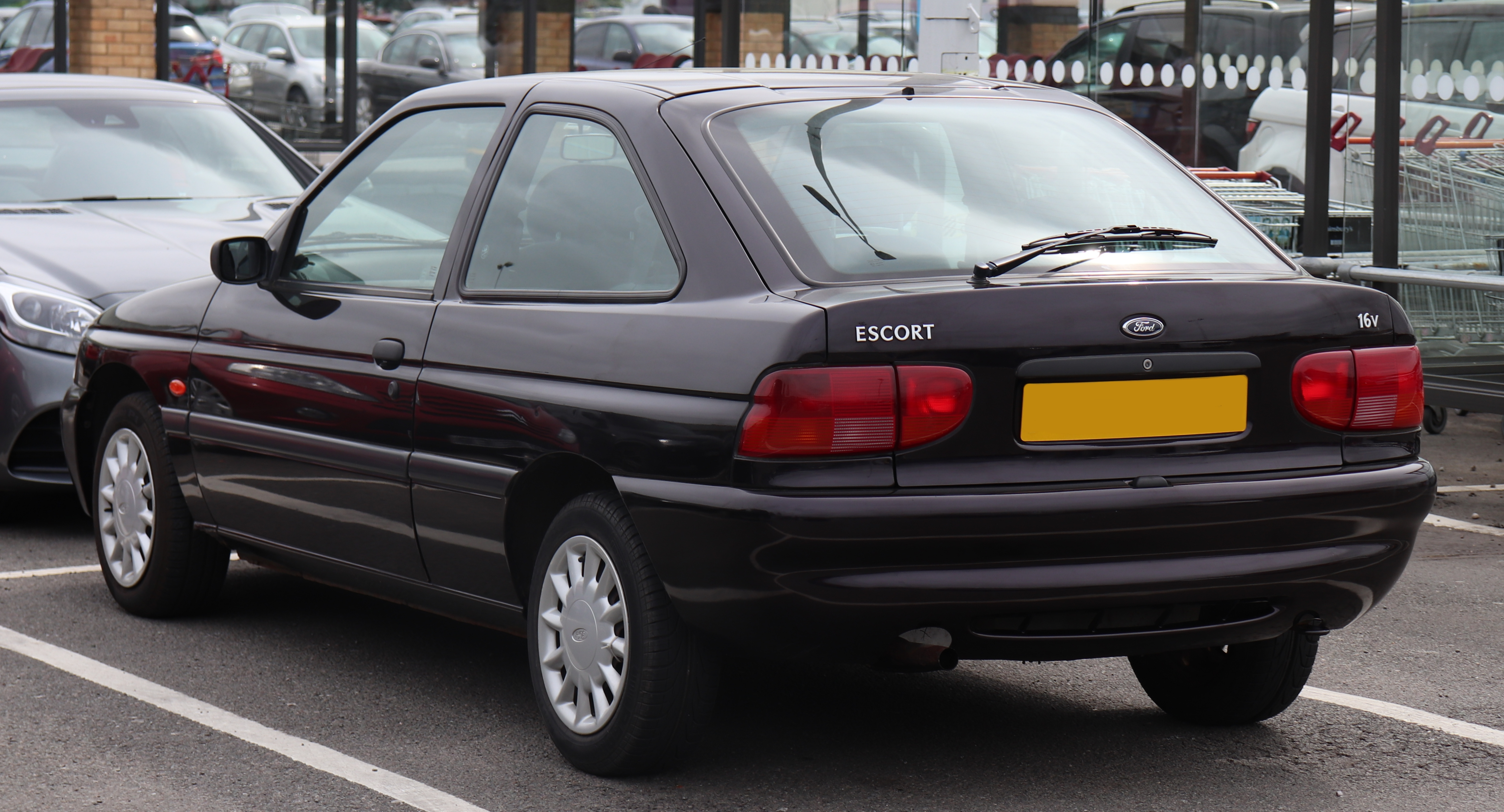 1997 Ford Escort LX 1.6 Rear Taken in Leamington Spa